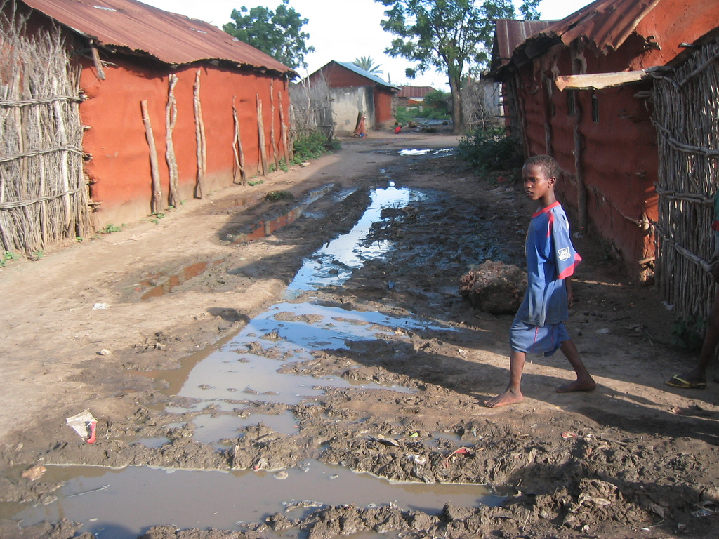 streets of Jamaame town, southern Somalia, still muddy from flooding